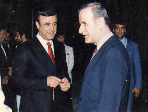 Rifa'at and Hafez al-Assad.